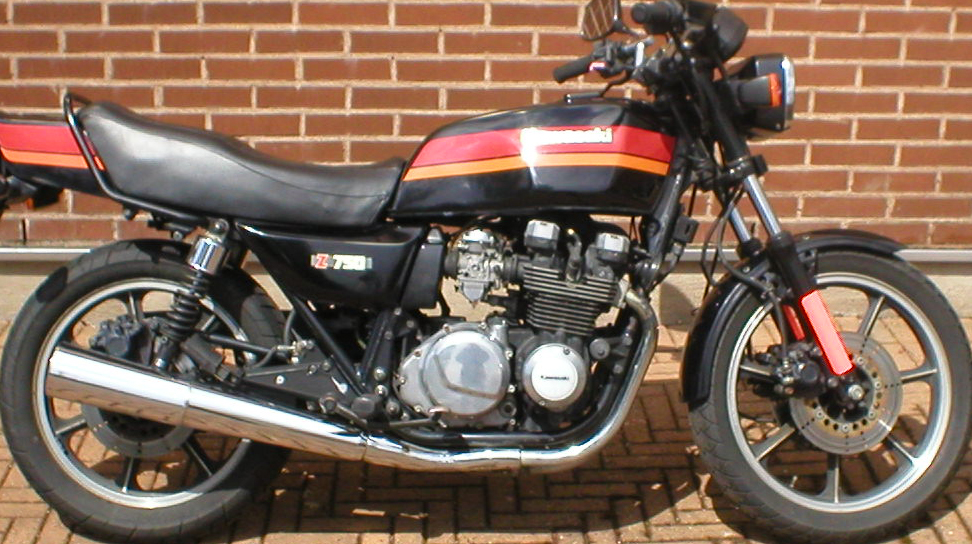 Kawasaki Z 750 L 1984 Original condition